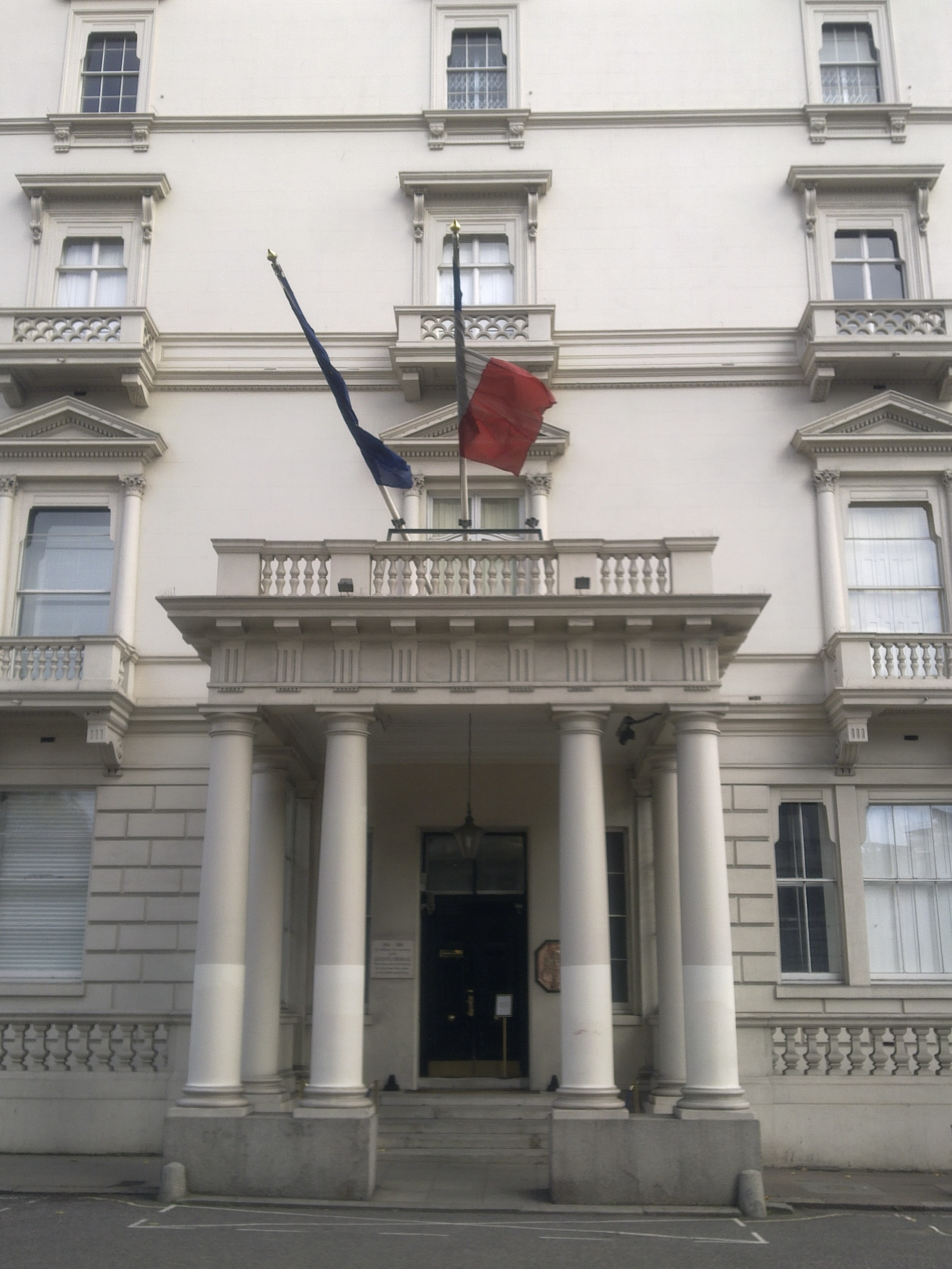 Embassy of France in London 1